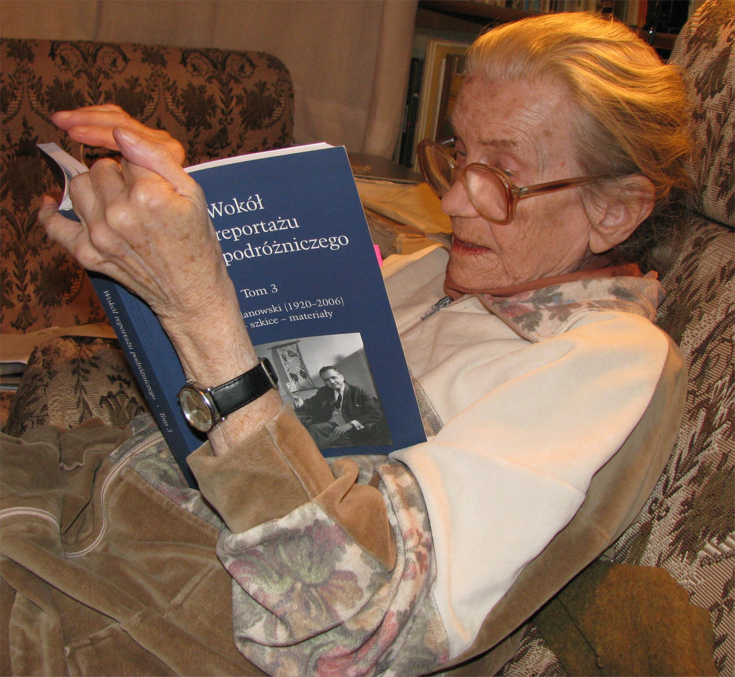 Krystyna Goldberg (b. February 26, 1930, in Warsaw, Poland), Polish journalist, publicist and editor. She lives in Warsaw, Poland